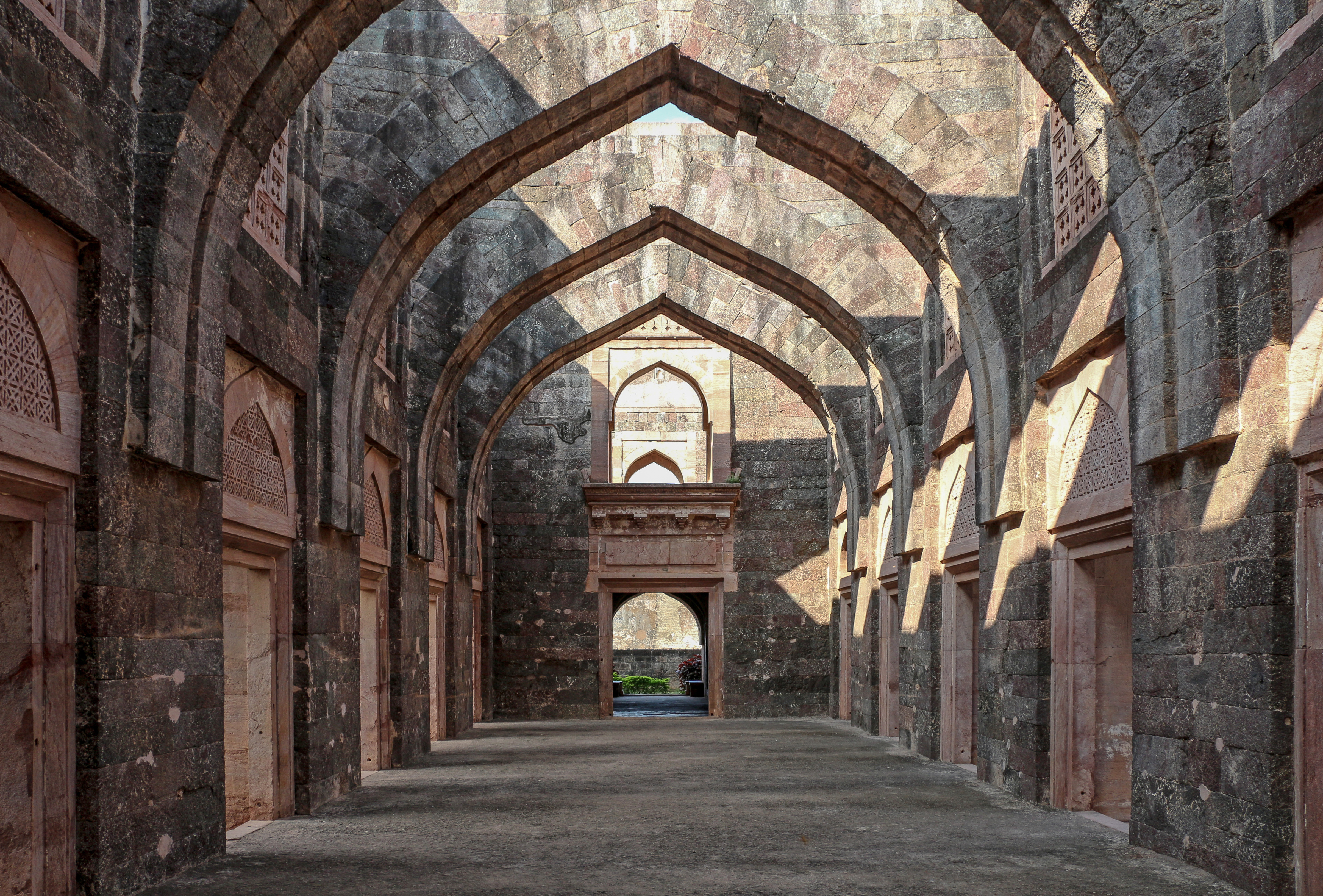 Interior of the Hindola Mahal, Mandu, India